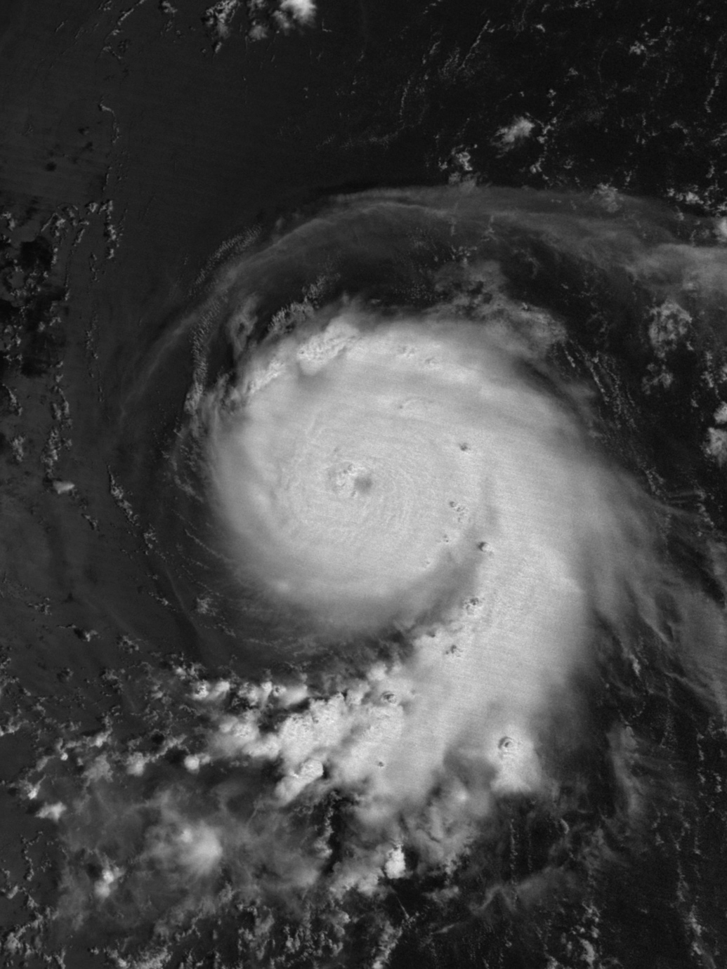 Typhoon Banyan northwest of Wake Island on August 12, 2017.